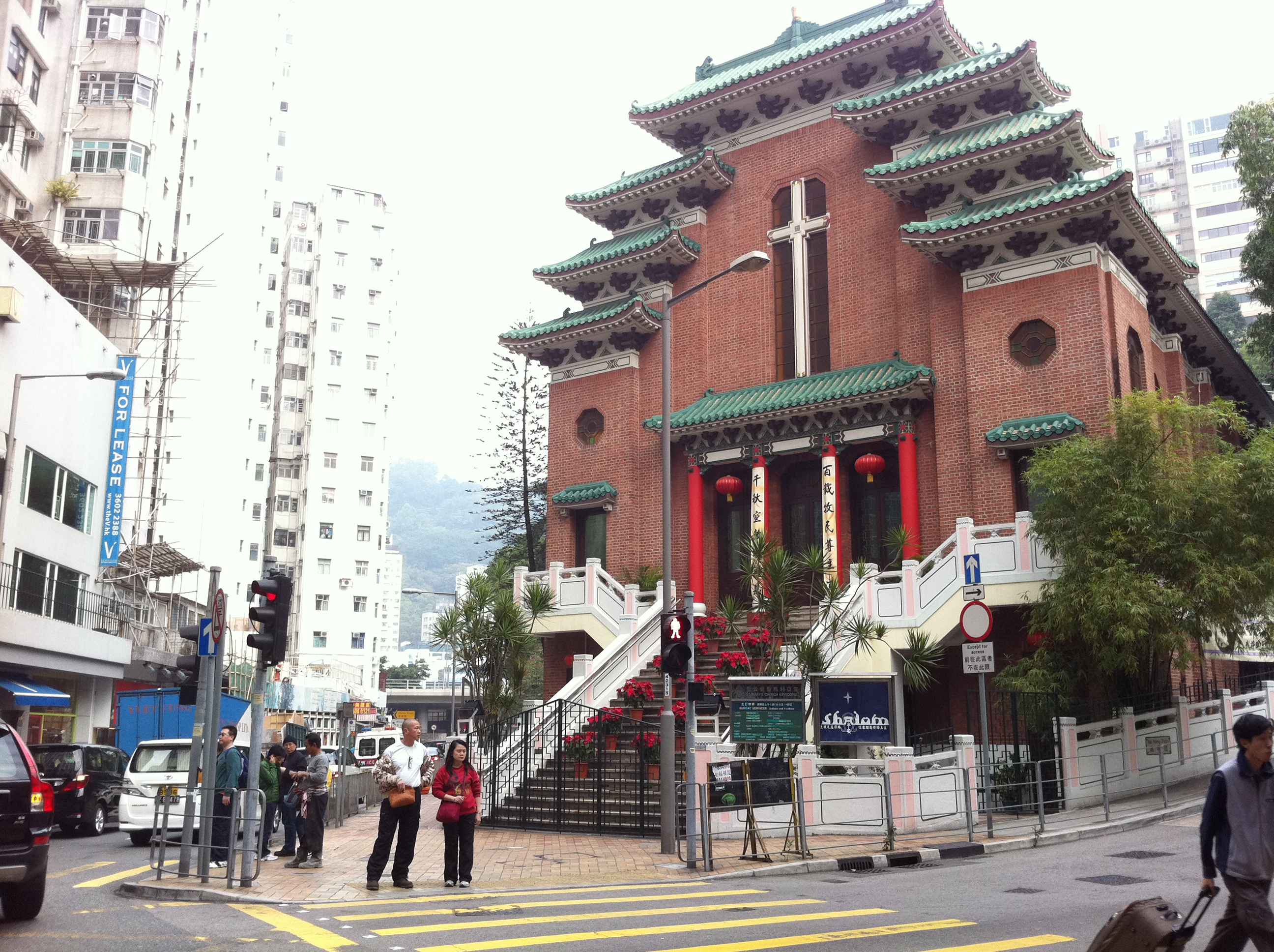 銅鑼灣道, Tung Lo Wan Road, Causeway Bay, Hong Kong